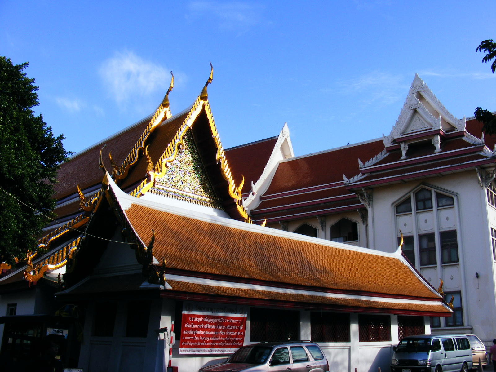 Mahachulalongkornrajavidyalaya University Location: Bangkok, Thailand.